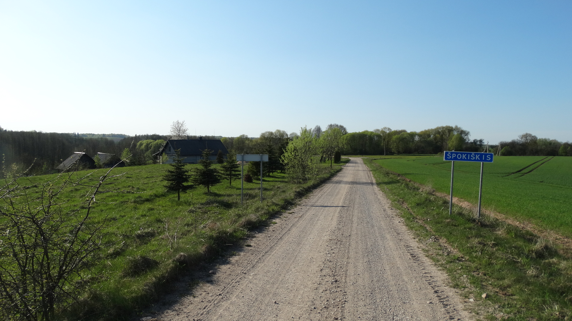 Špokiškis, Širvintos District, Lithuania